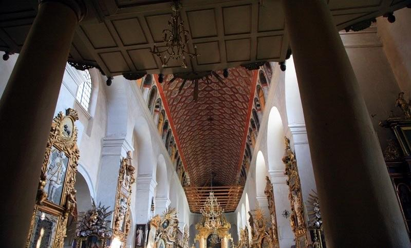 Zwiastowania Basilica in Pułtusk]